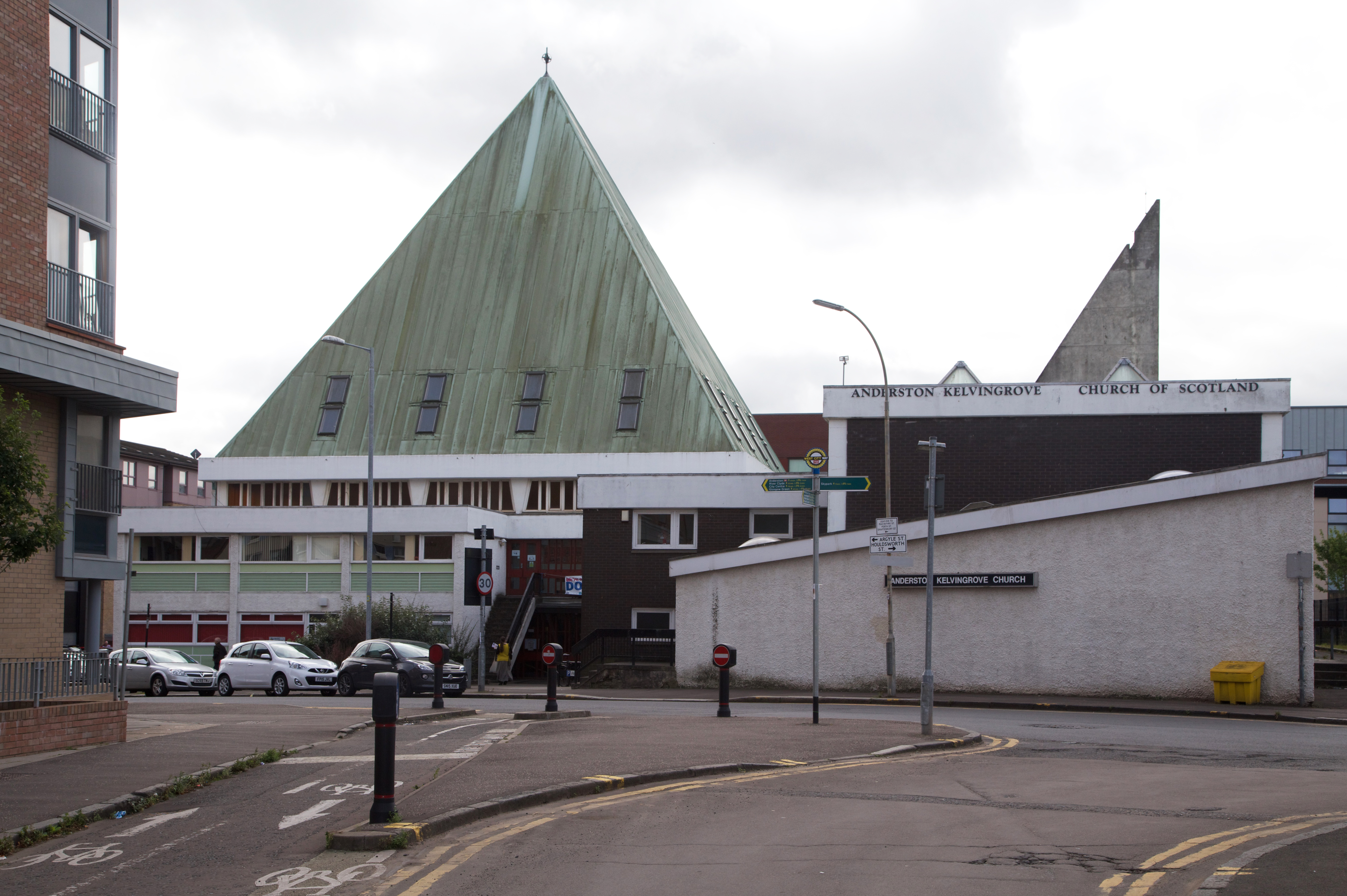 Anderston Kelvingrove Parish Church (church Of Scotland), 759 Argyle Street, Little Street, Grace Street, Glasgow Wikidata has entry Q17813808 with data related to this item.